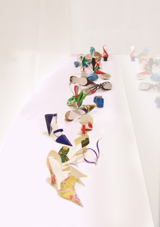 A paper sculpture installation of aproximately 25 miniature paper shoes. Each shoe is about 1.5 x 1.5 x .5 inches. The artist is Carlos N. Molina, a paper artist living in New York City. The photo was taking at the opening of his paper sculptures show in October of 2007.